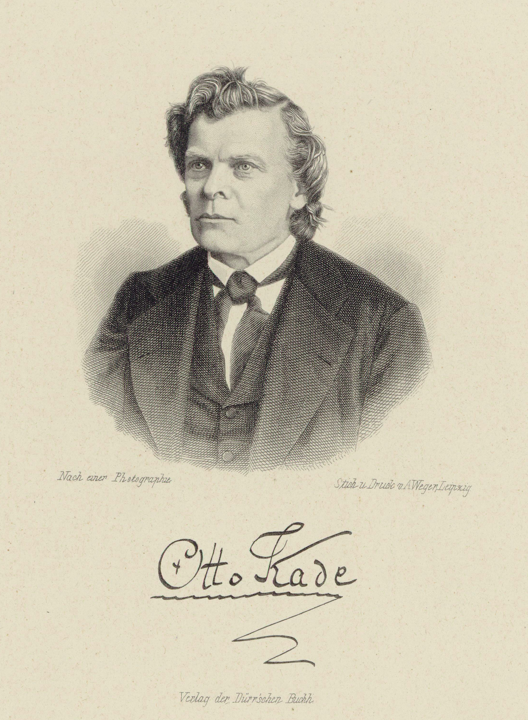 Depicted person: Otto Kade